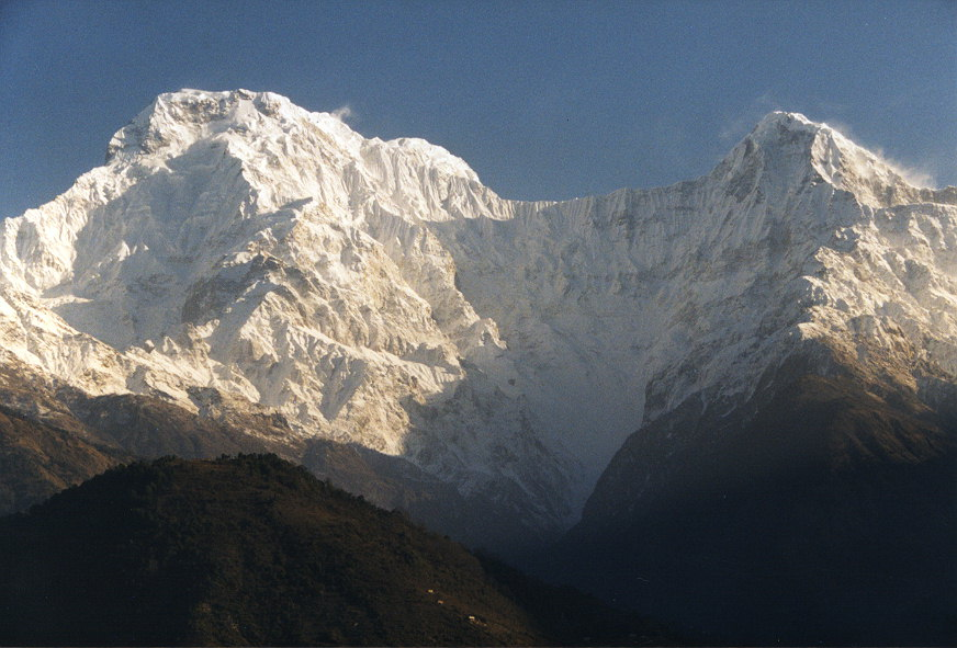 Annapurna South (left) and Hiunchuli (right) from S direction